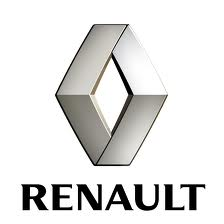 Renault logo